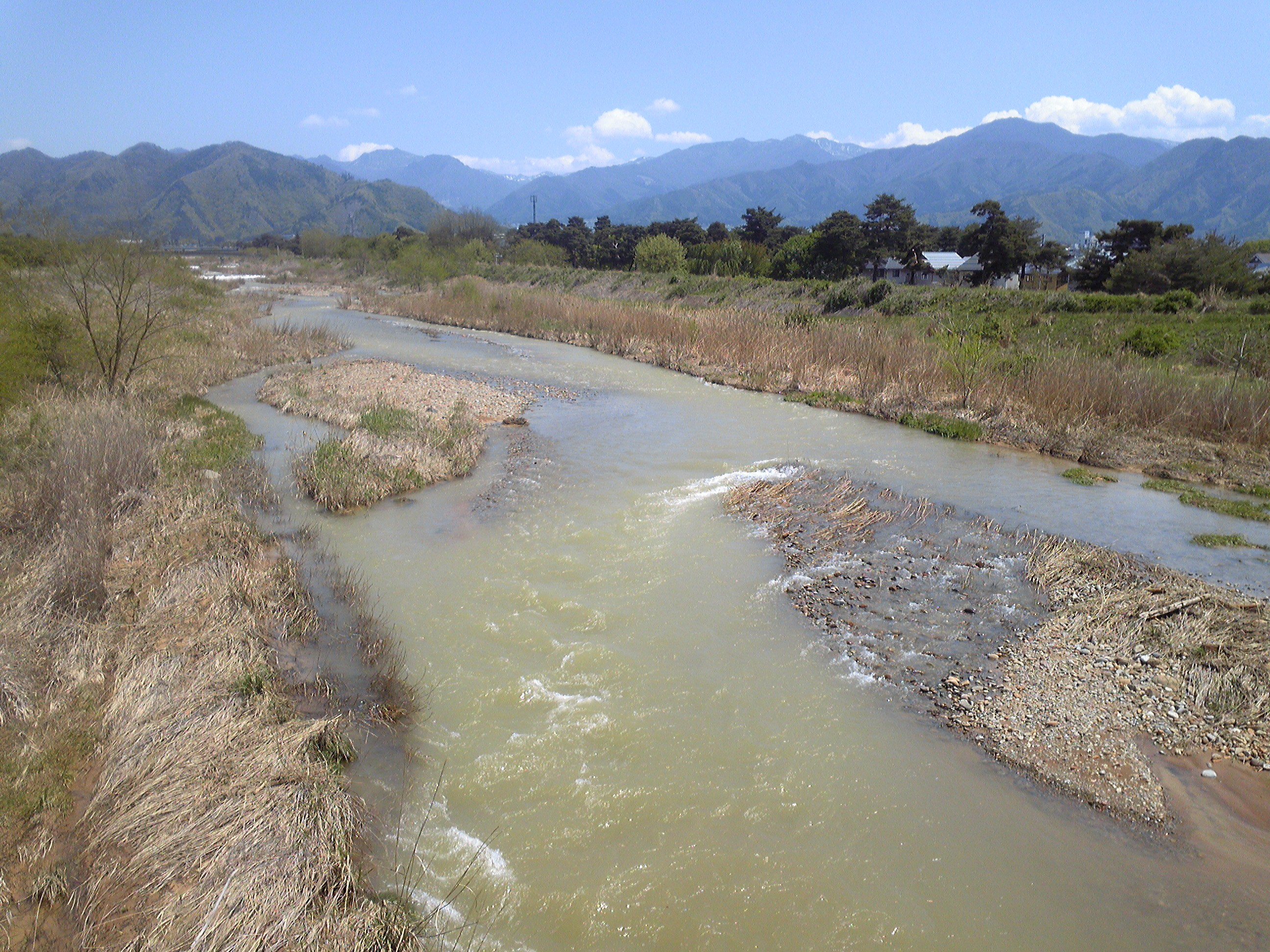 Matsu River in Obuse, Nagano Japan.